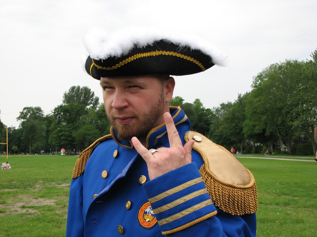 Marto Napoli as "Montagne", during the "Beau Gros Tintamarre Burlesque" in August 2009. Martin Castonguay, alias Marto ou Marto Napoli, est un animateur de radio de Québec. Originaire de Saint-Alexandre-de-Kamouraska (près de Rivière-du-Loup), il a été animateur à la station CHOI-FM entre 2000 et 2007 et anime maintenant à Radio X2 Rock 100.9.